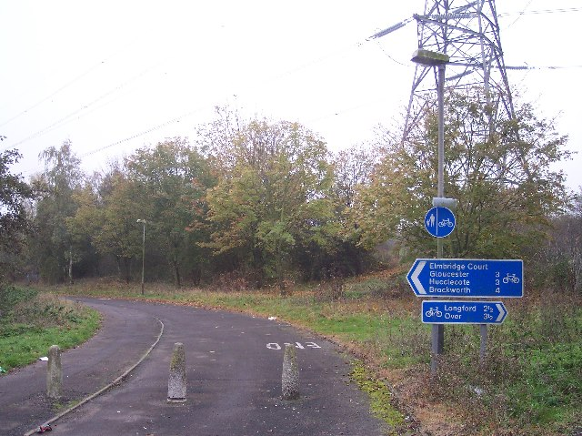 Cycleway near the Elmbridge Court Roundabout. Thoughtfully planned-in cycleways when the modern road development took place.